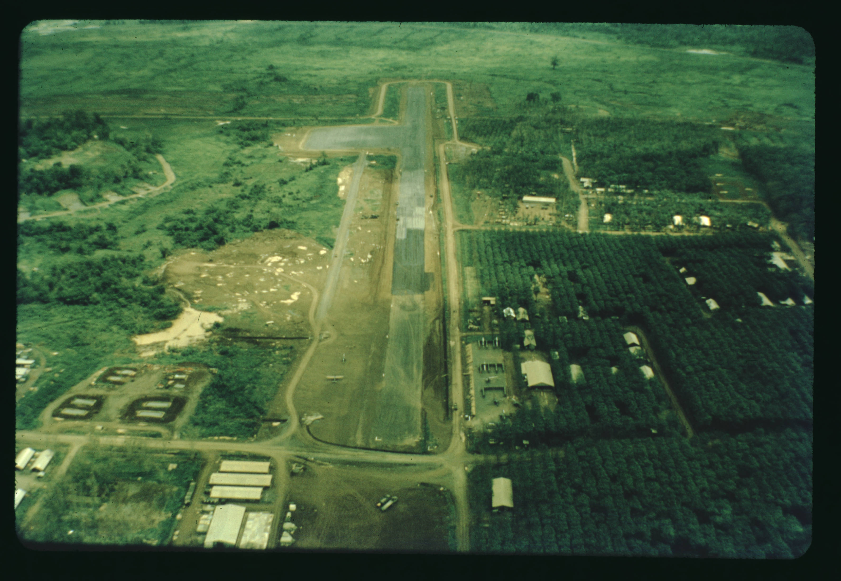 Luscombe airfield, north of Vung Tau, the 36th Engineer Battalion is assisting the 17th Royal Australian Construction Squadron in grading and surfacing the air strip